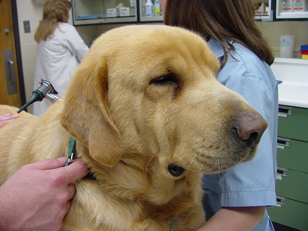 Typical hypothyroid facies